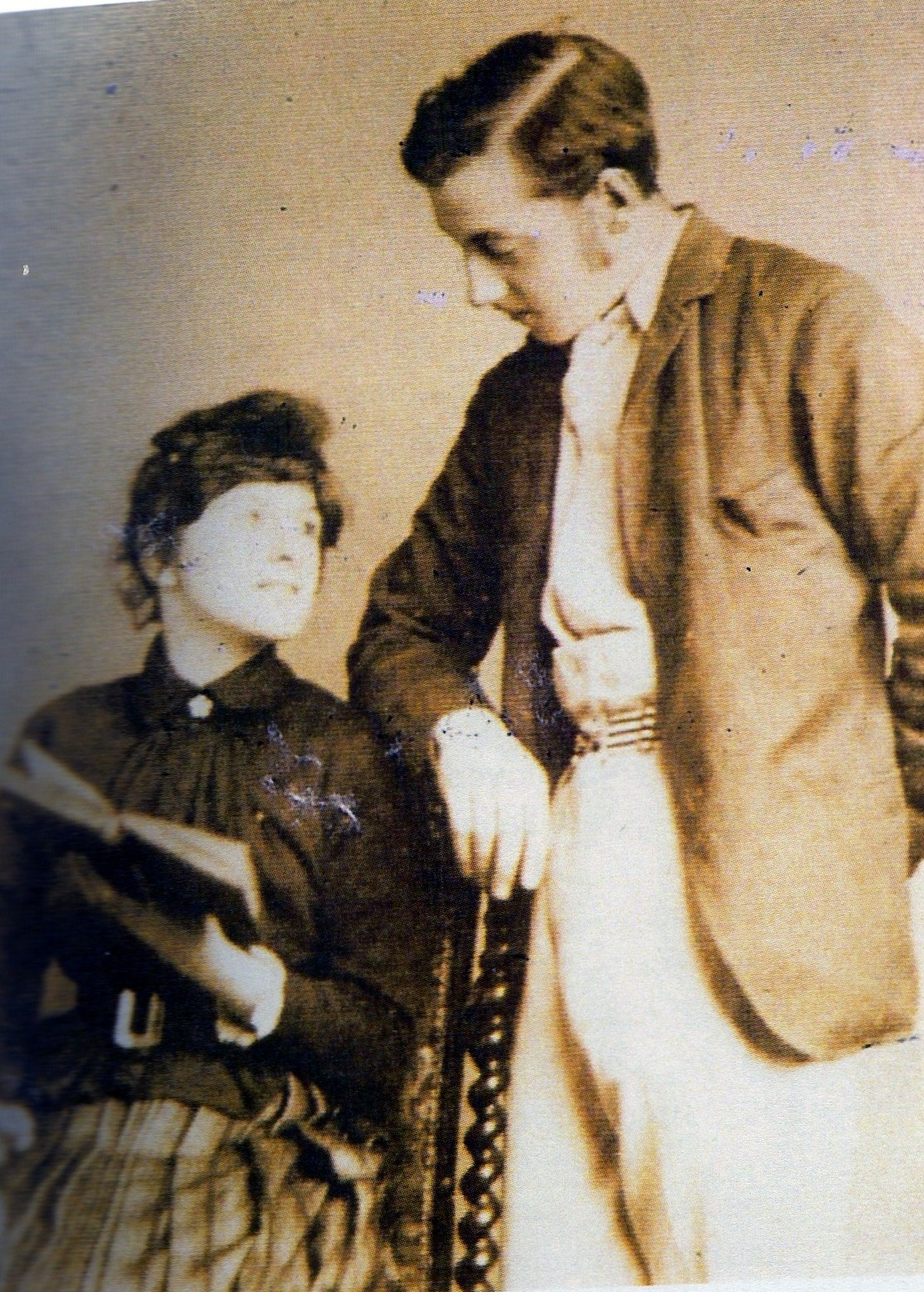 Photograph of Harold Copping (1863-1932) and Violet Amy Prout (1865-1894) at the time of their engagement